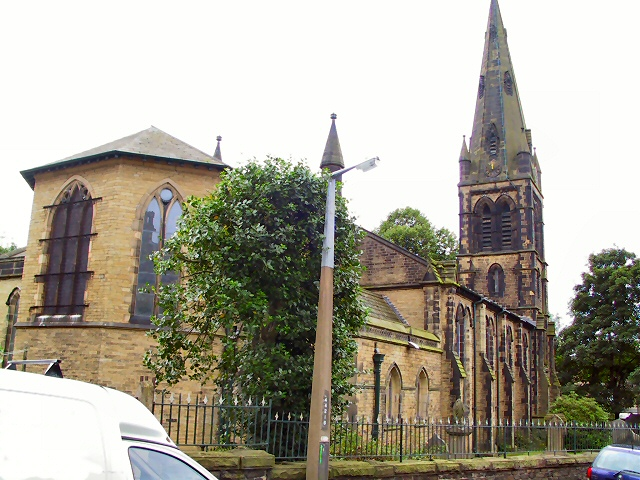 St James the Great parish church, Hollincross Lane, Whitfield, Derbyshire